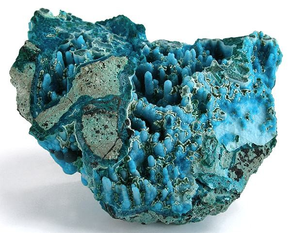 Chrysocolla Locality: Ray Mine, Scott Mountain area, Mineral Creek District (Ray District), Dripping Spring Mts, Pinal County, Arizona, USA (Locality at ) Size: 9.3 x 7.4 x 5.5 cm. A most unusual example of this material because usually you get just stalactites loose and broken off, whereas this is basically a whole pocket cavity of small stalactites, spilling out of the protected pocket to drape the outside areas with a thin coating of chrysocolla. Ex. Harold Urish Collection.